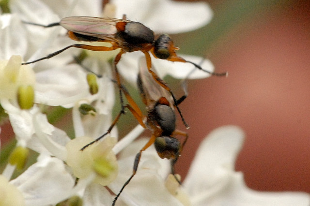 Chyliza vittata from Commanster, Belgian High Ardennes .